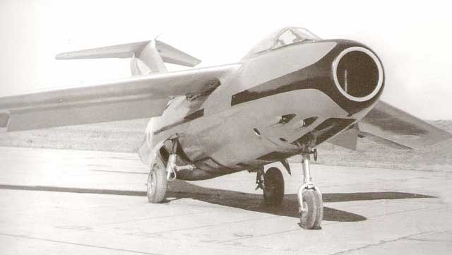 FMA IAe 33 Pulqui II jet fighter prototype on the ramp